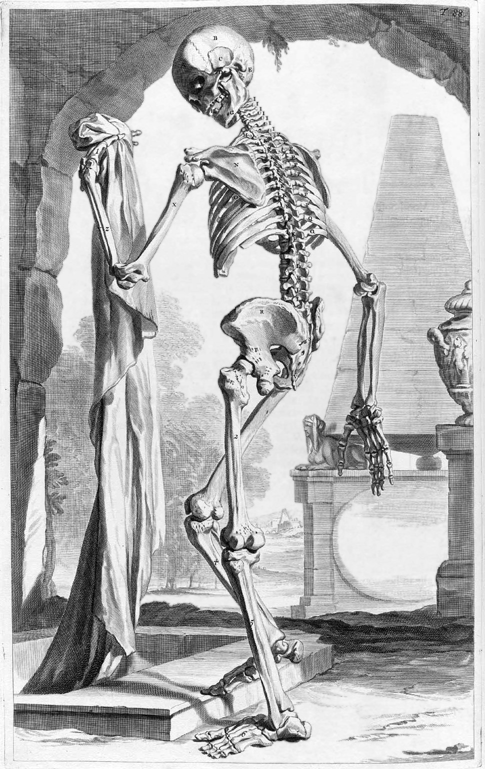 Ontleding des menschelyken lichaams... Amsterdam, 1690. Copperplate engraving with etching. National Library of Medicine. Portrait of Govard Bidloo (1649-1713) by the artist Gérard de Lairesse (1640-1711). Further information can be found on the category page.Uploader=Kuebi 13:48, 2 April 2007 (UTC)